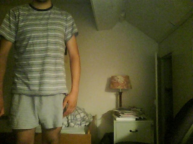 An example of a shortama